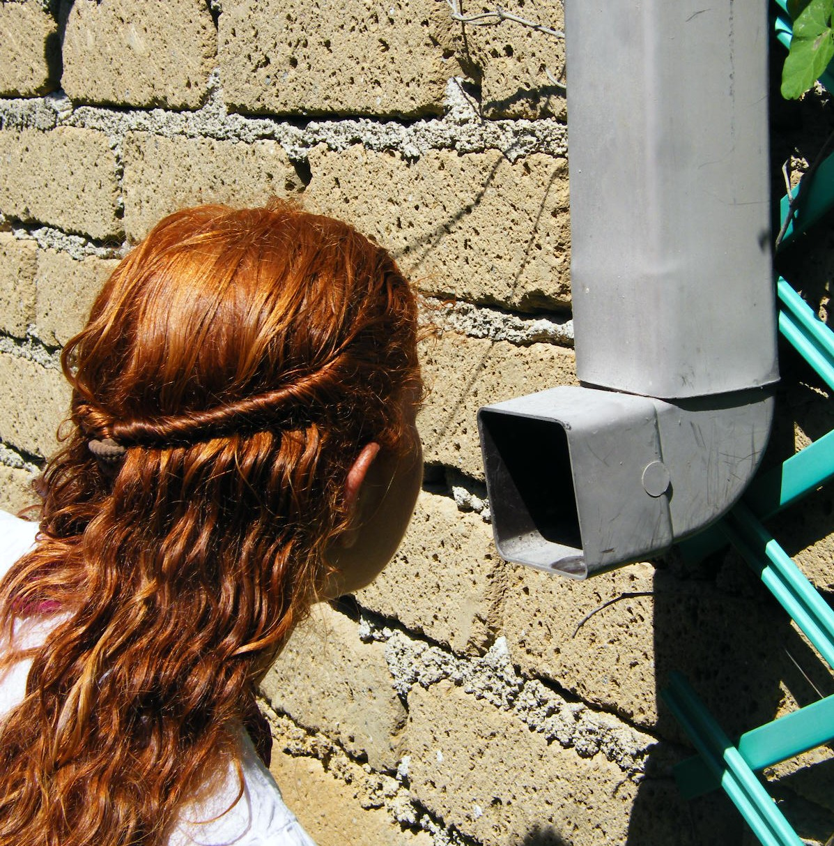 sound transmitted through a drain pipe is heard by a girl on ground level, the drain pipe acting as a waveguide for the sound waves.